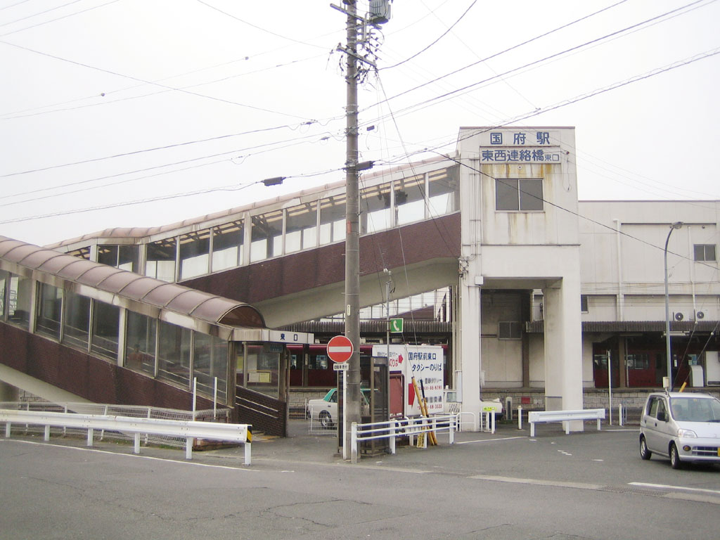 The east gate of Kō Station (国府駅), in Toyokawa, Aichi, Japan